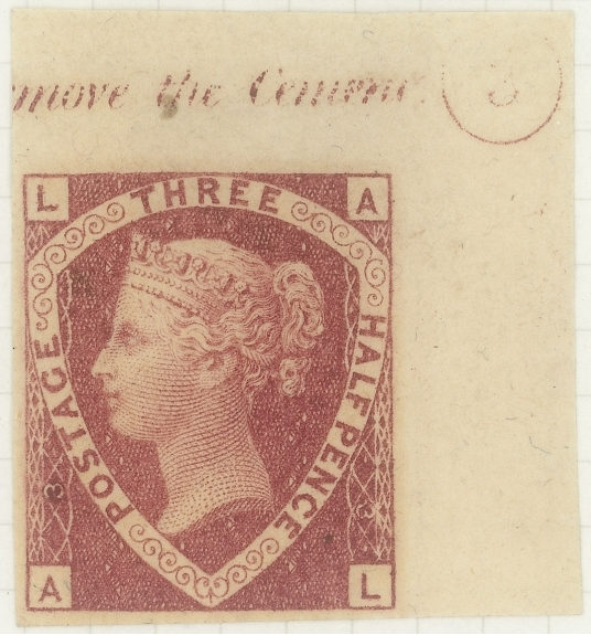 1870 rose-red three halfpence stamp, imprimatur of Plate 3 POST 14129